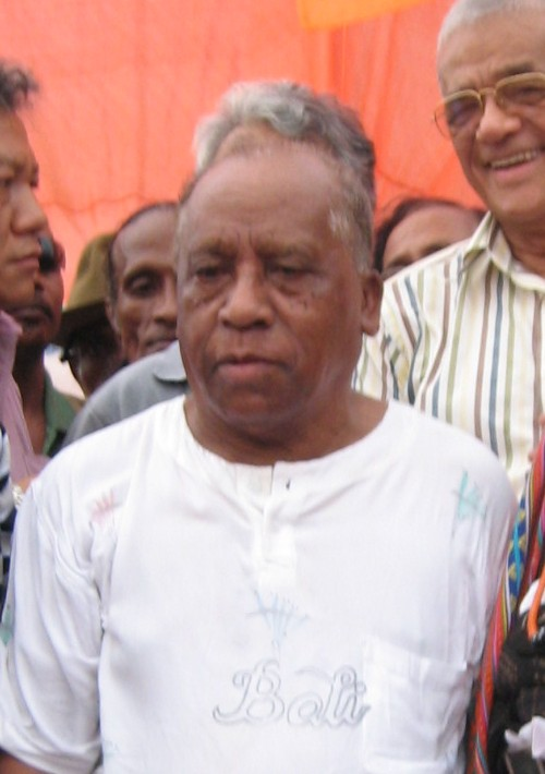 Francisco Xavier do Amaral at campaign for presidential election 2007